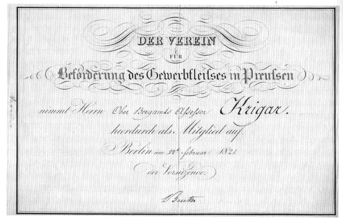 Membership-card for Johann Friedrich Krigar, signed "Beuth".